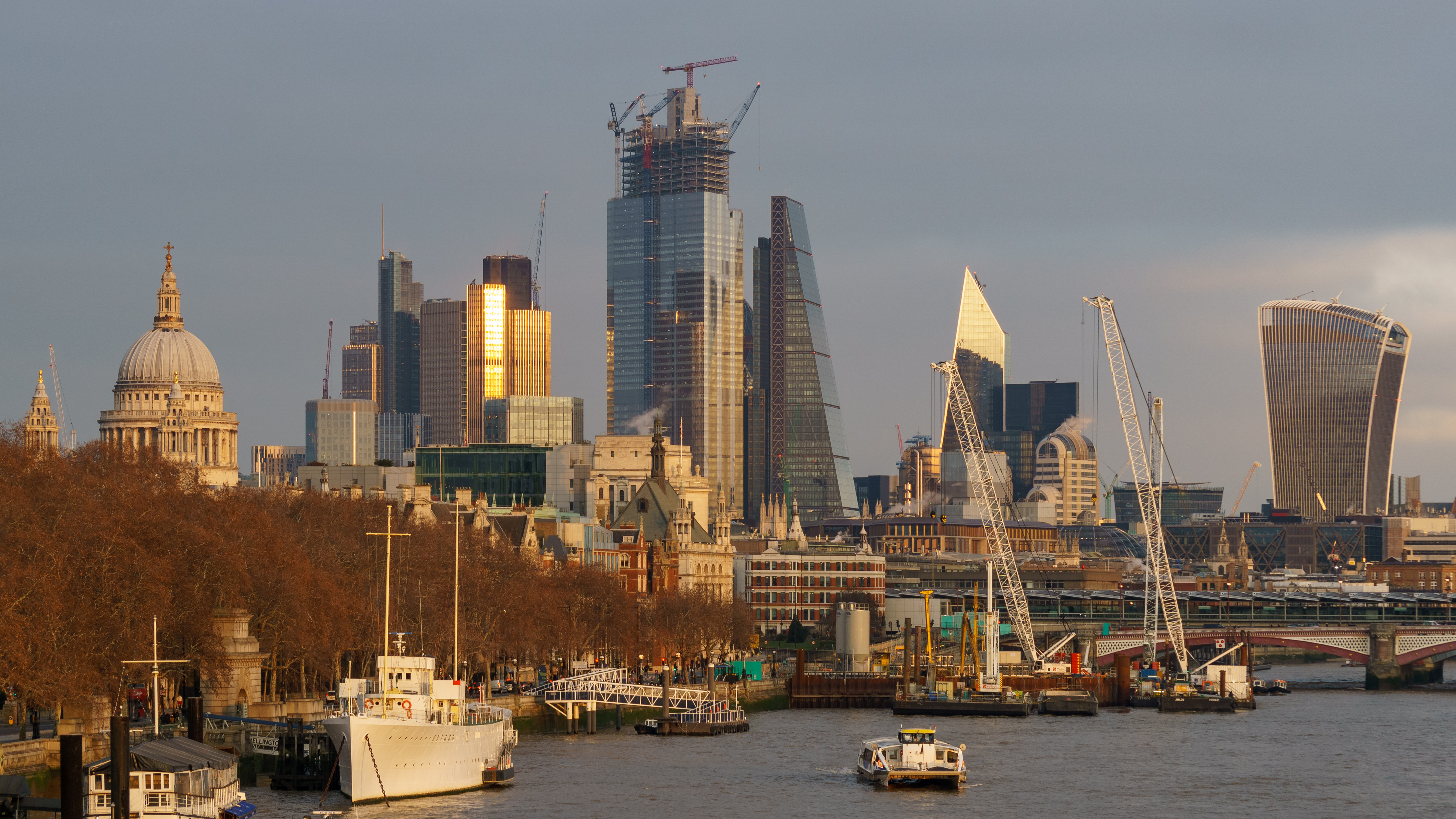 The City of London from Waterloo Bridge.